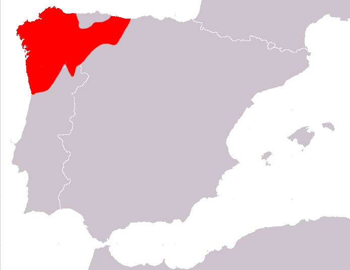 Podarcis bocagei range map.